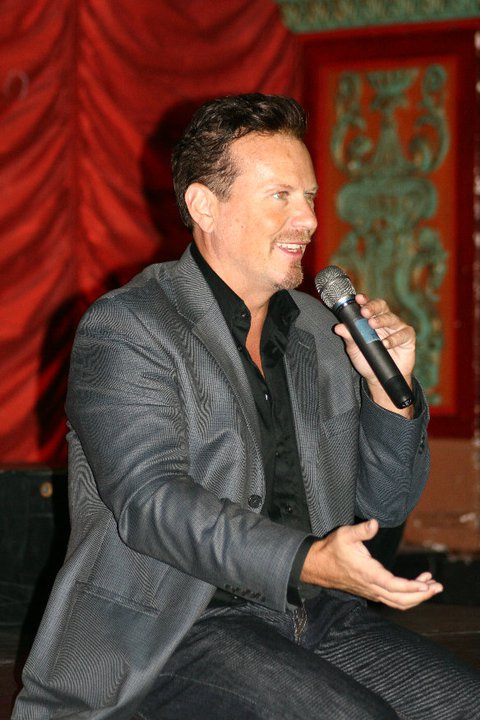 Dan Davies addressing the crowd at his Music Box Theatre premiere in Chicago, IL 2010